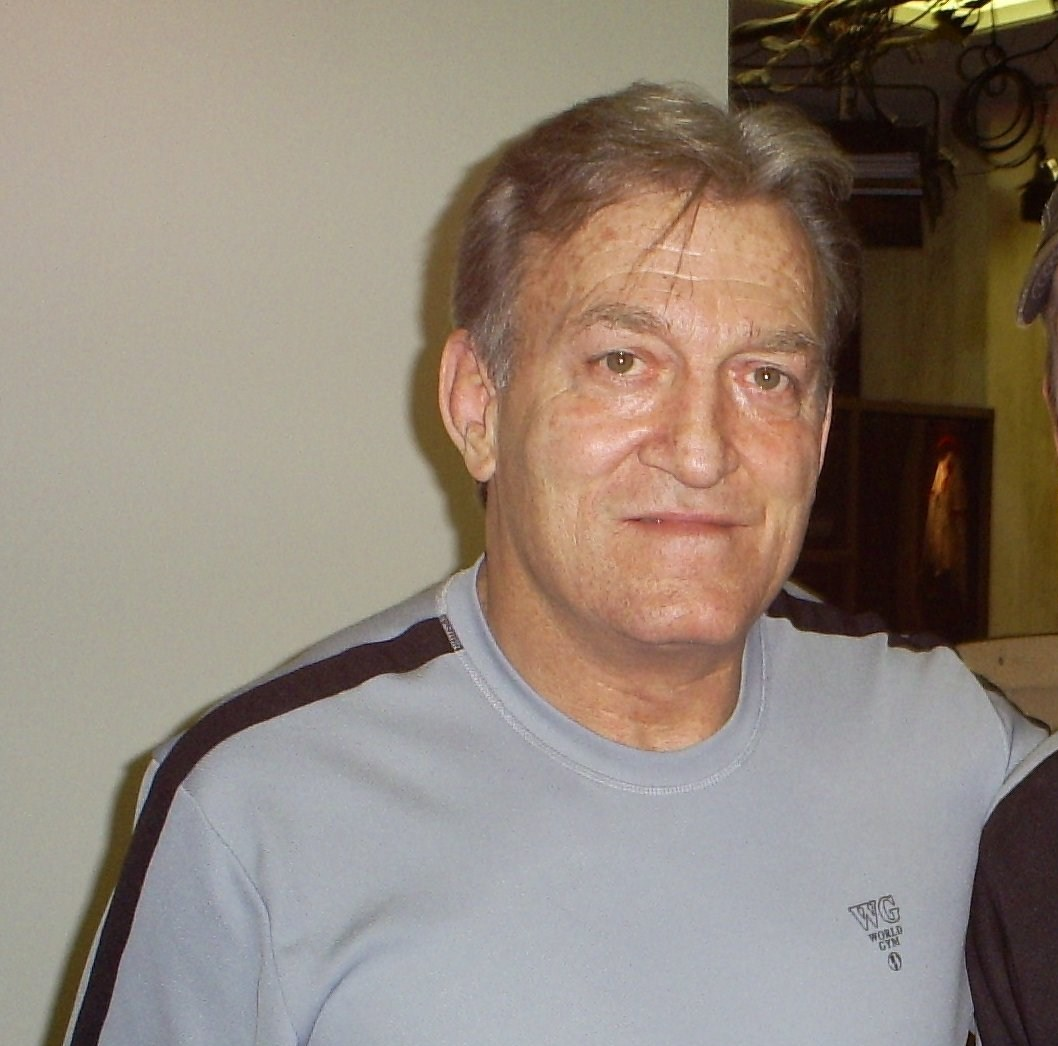 Paul Orndorff at a taping of the 25th Anniversary of WrestleMania 1 near Boston, Mass in March 2009.